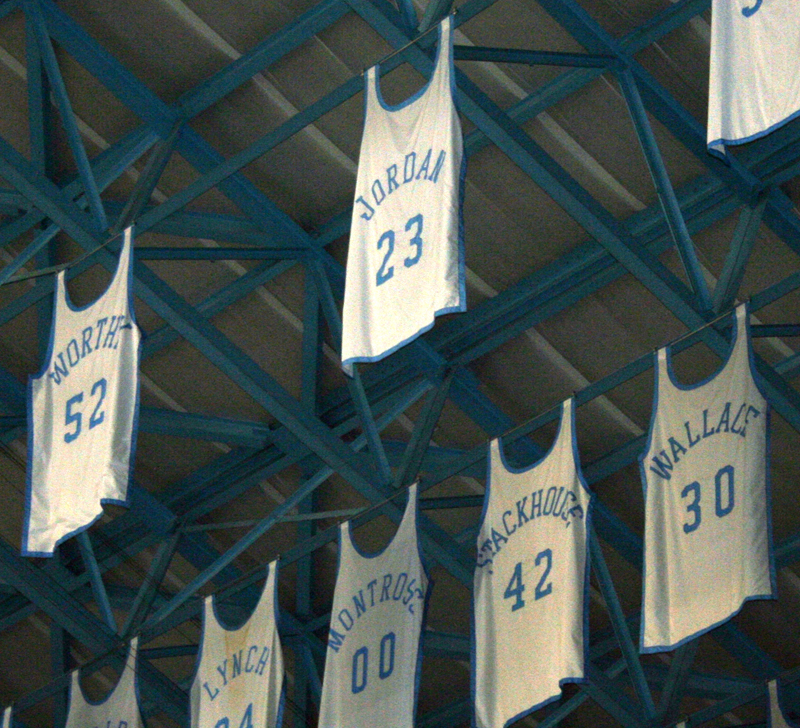 Michael Jordan's college jersey hanging from the rafters at the Dean Smith Center.